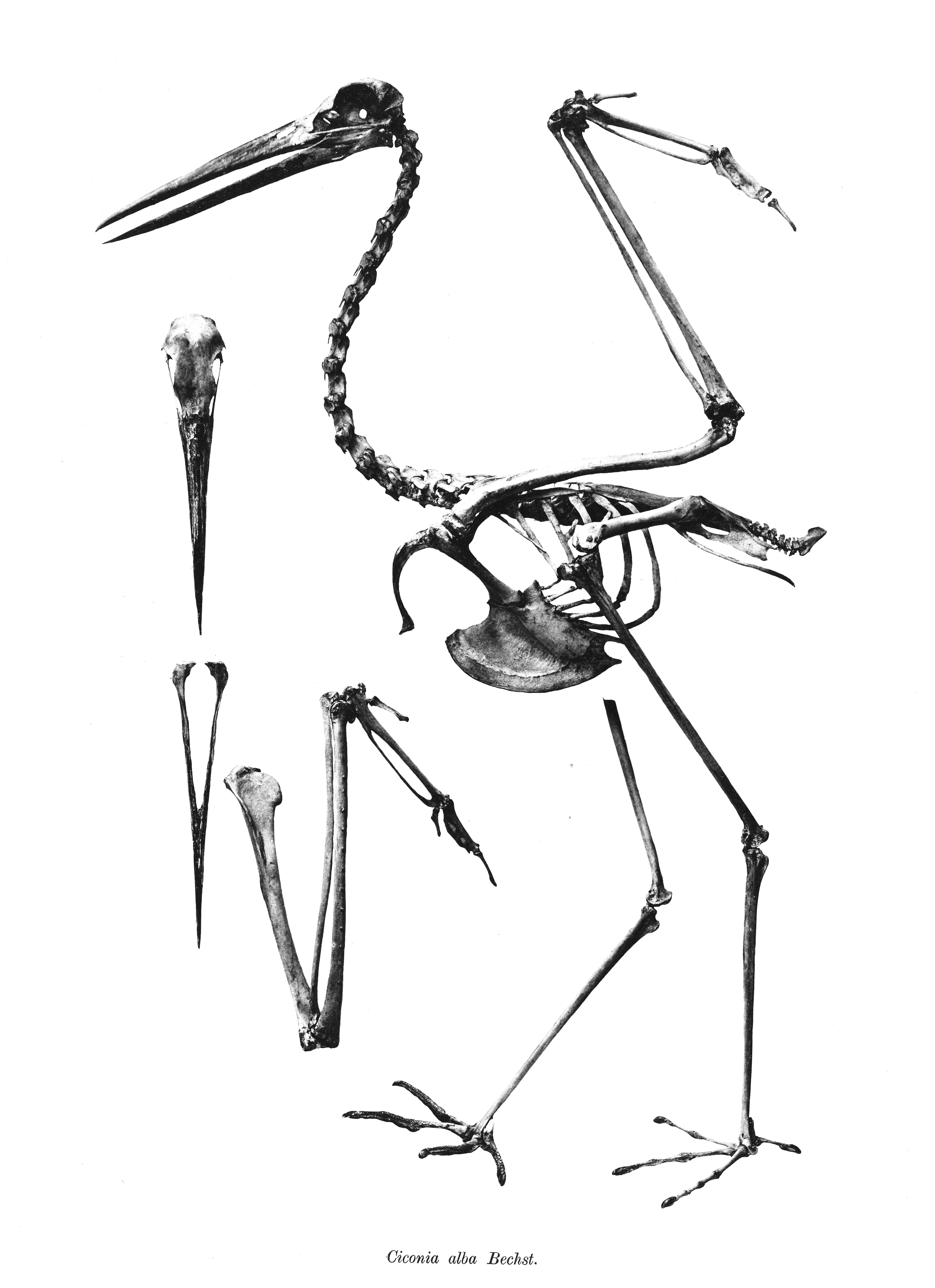 Ciconia ciconia